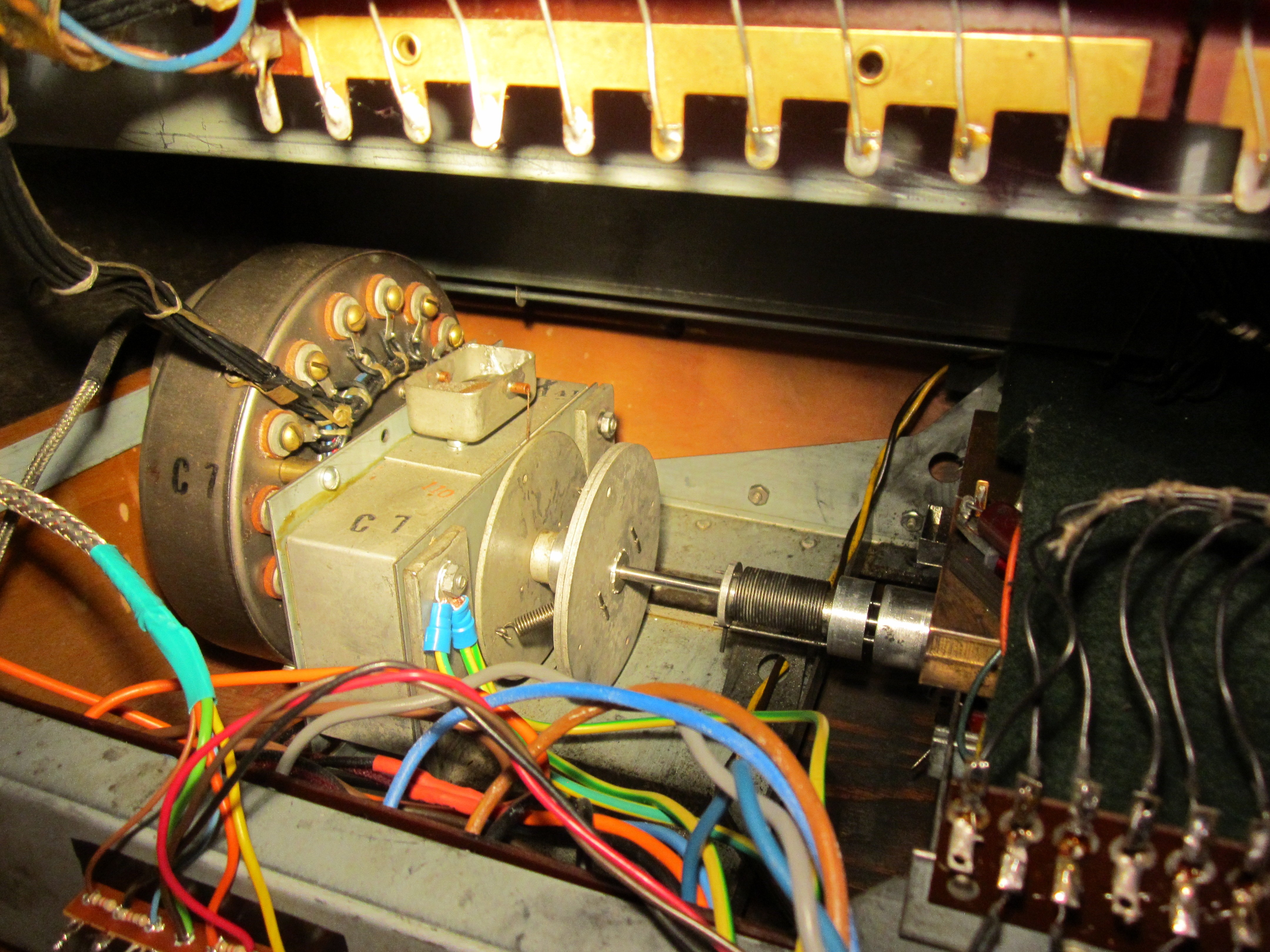 Hammond synchronous Run-Motor with attached Vibrato-Scanner installed in a B-3. 115V, 60Hz, 1200rpm, Non self starting Original Hammond part No.: 121-000057 Uses in early organs.